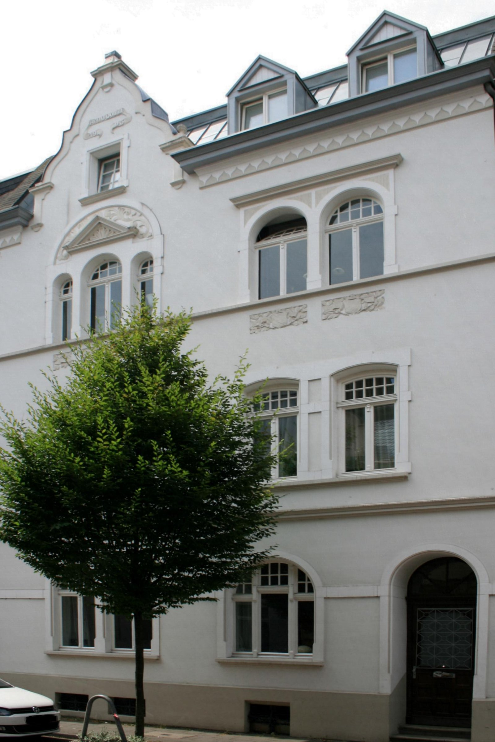 Cultural heritage monument No. B 011 in Mönchengladbach